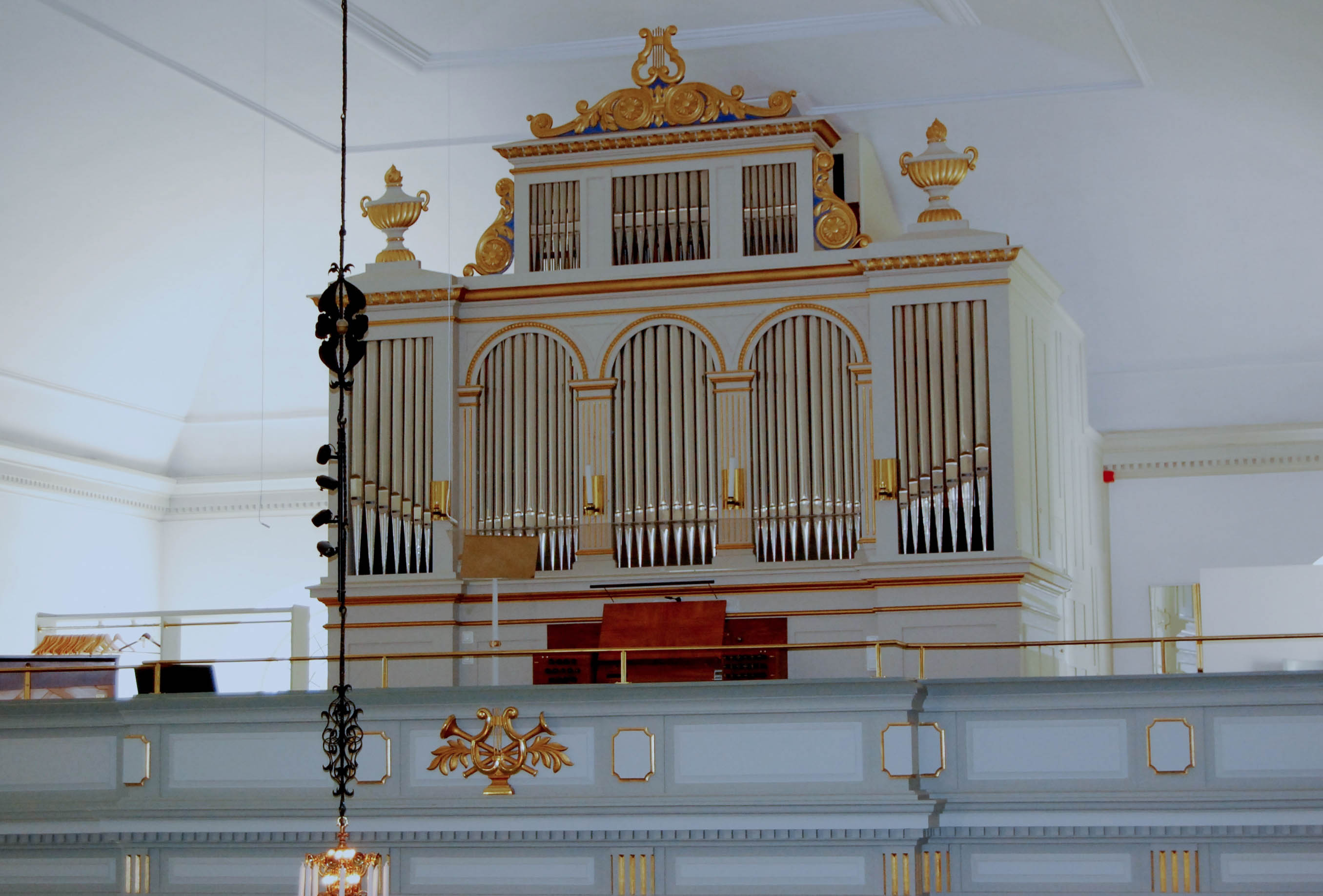 Asarum Church.Organ